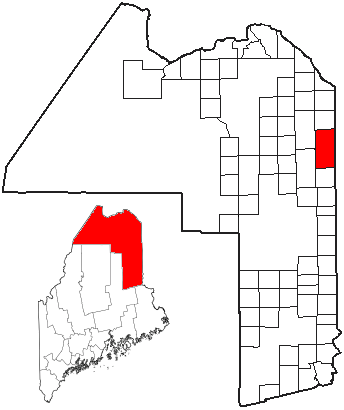 Adapted from U.S. Census Bureau maps (American FactFinder) and Wikipedia's ME county maps by Bumm13.